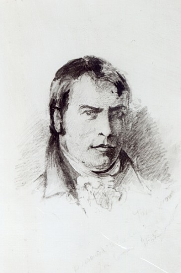 John Crome